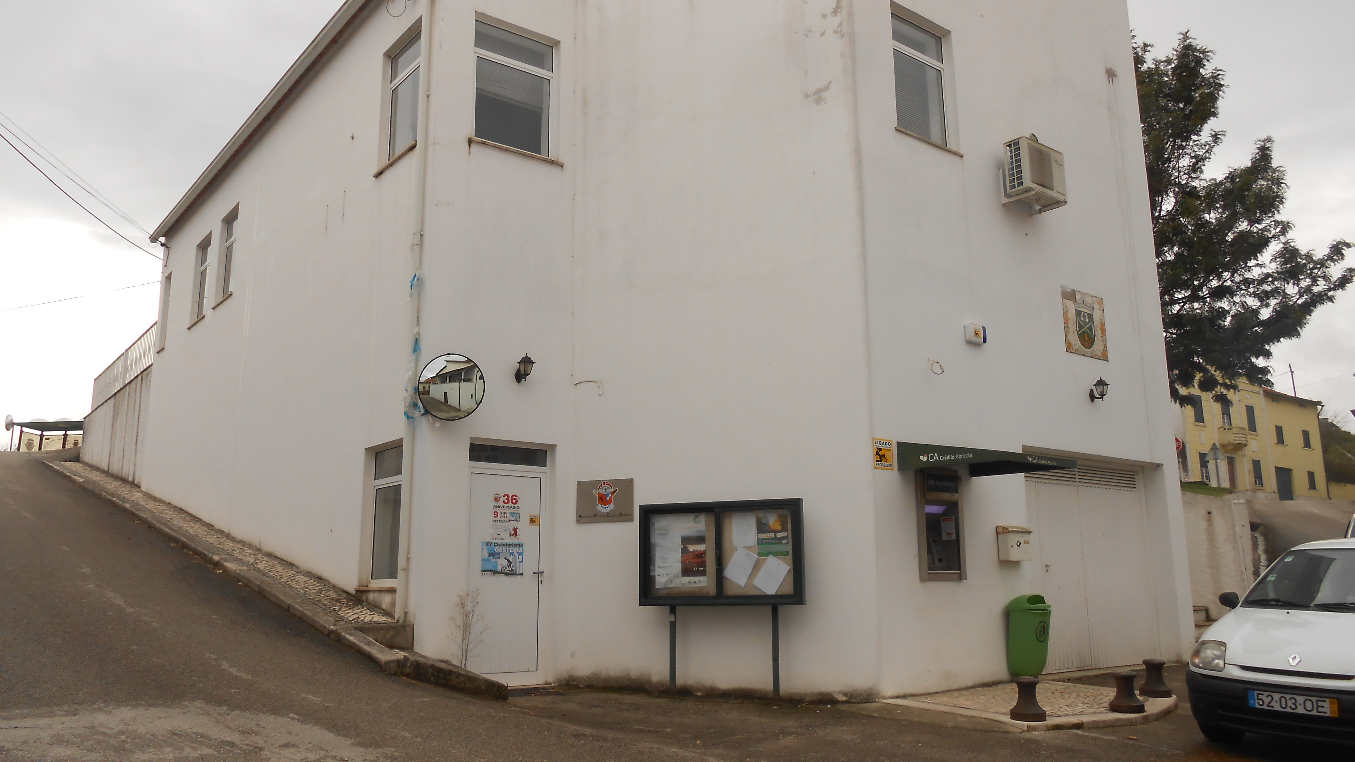 Administration building of the Gesteira parish, municipality of Soure, Coimbra district, Portugal.